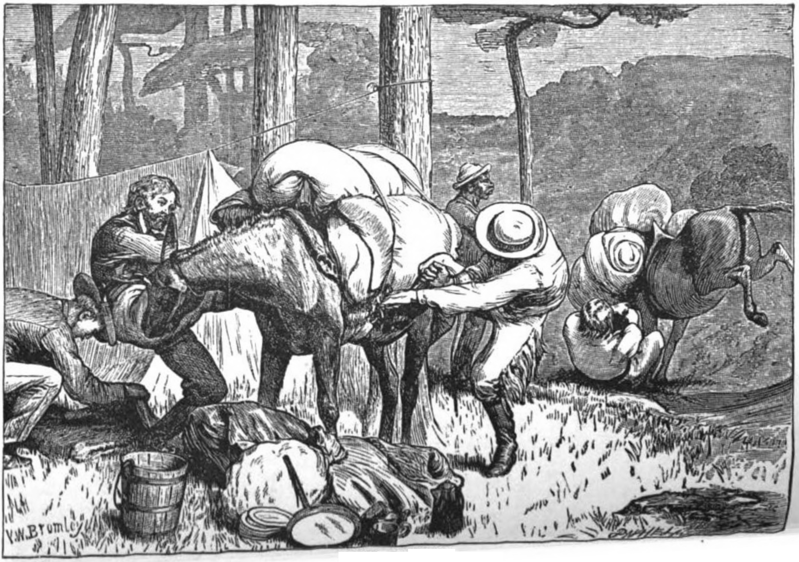 Mule packing